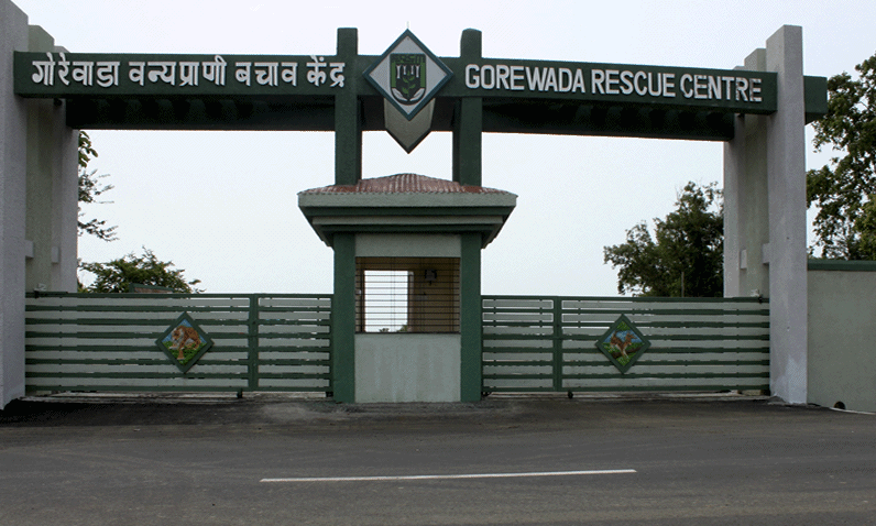 The entrance to Gorewada Rescue Centre